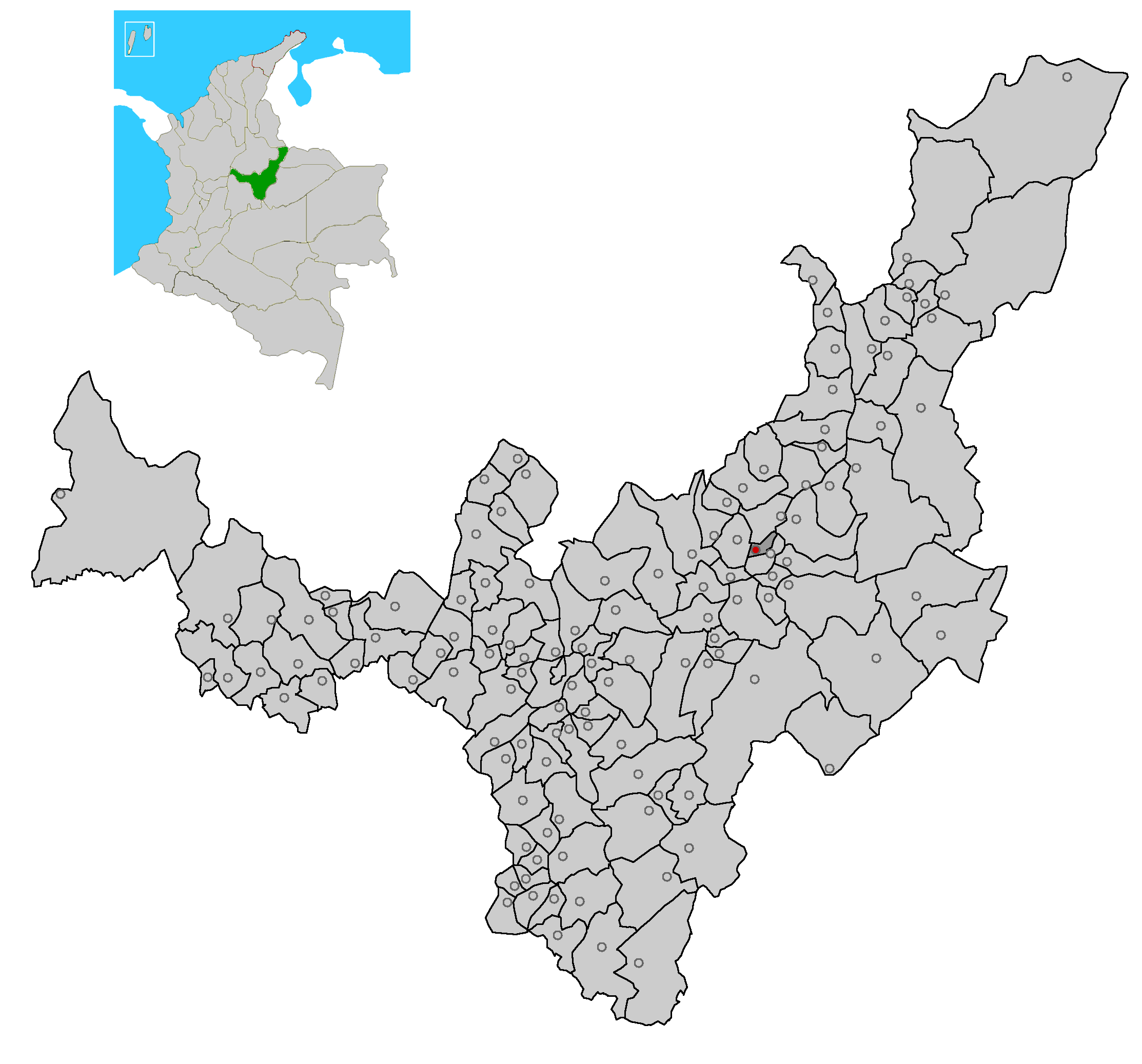 Image depicting map location of the town and municipality of Busbanza in Boyaca Department, Colombia